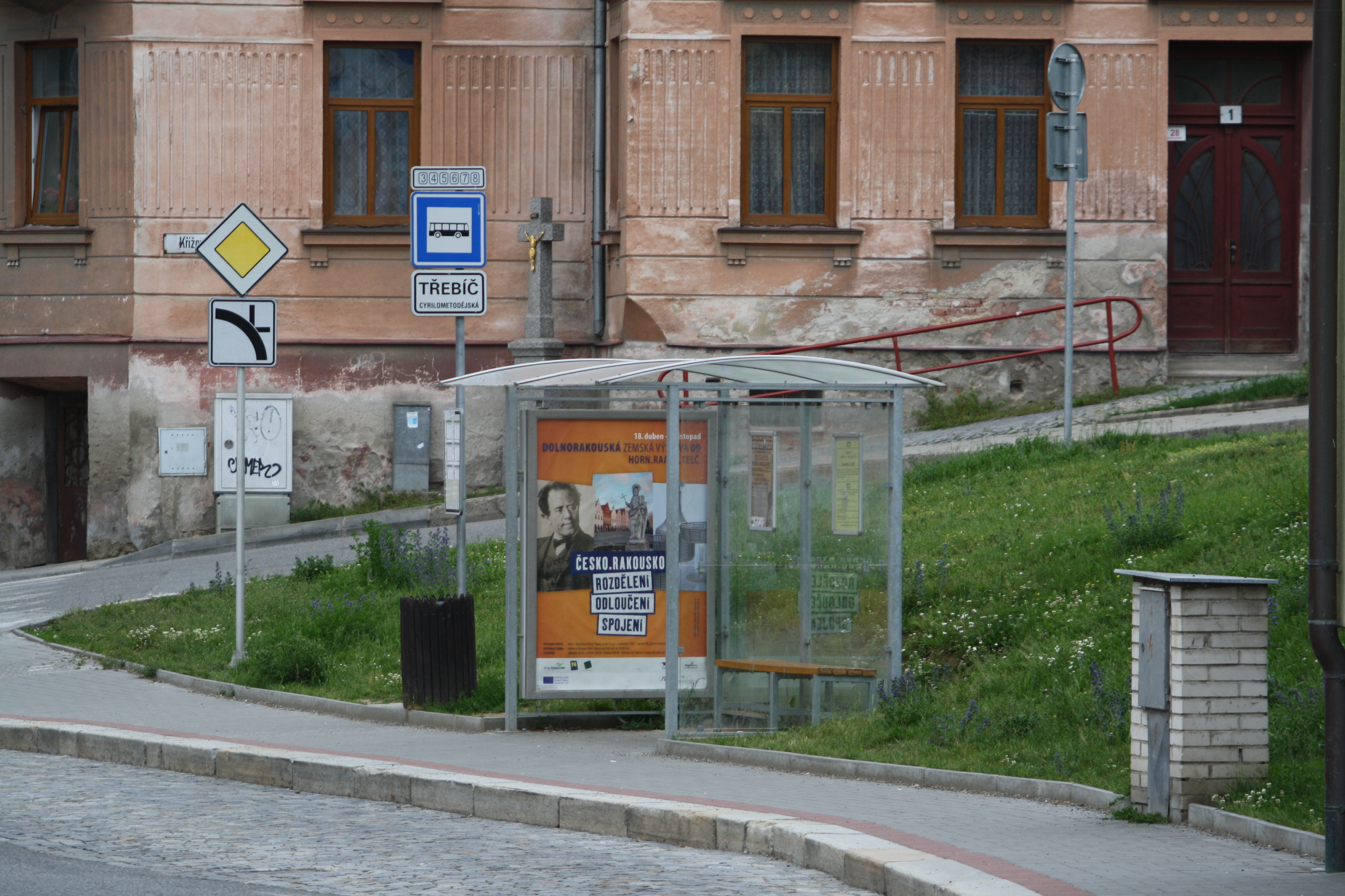 Public transport station Cyrilometodějská street in Třebíč, Czech Republic.